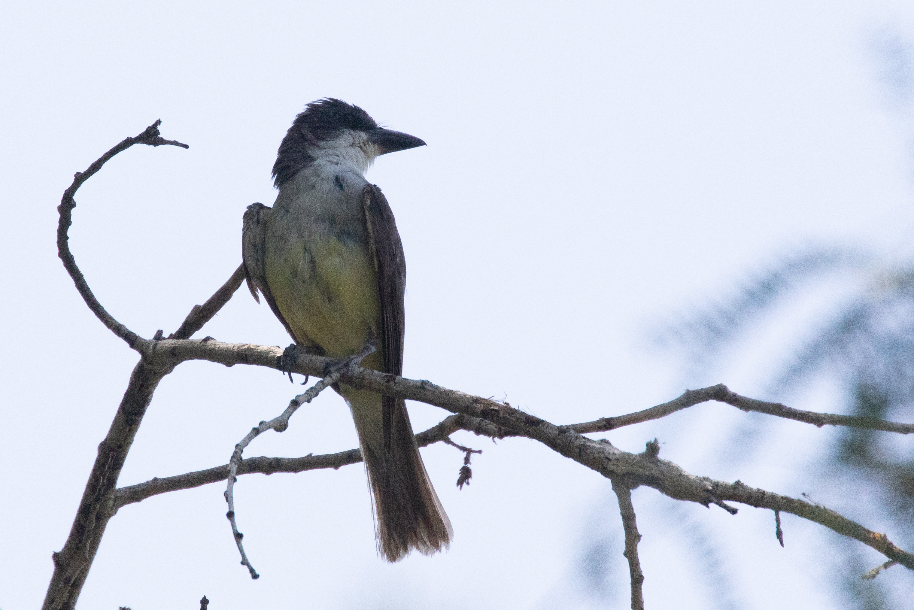 Thick-billed Kingbird | Santa Gertrudis Lane | Tubac | AZ|2018-08-06|12-07-38